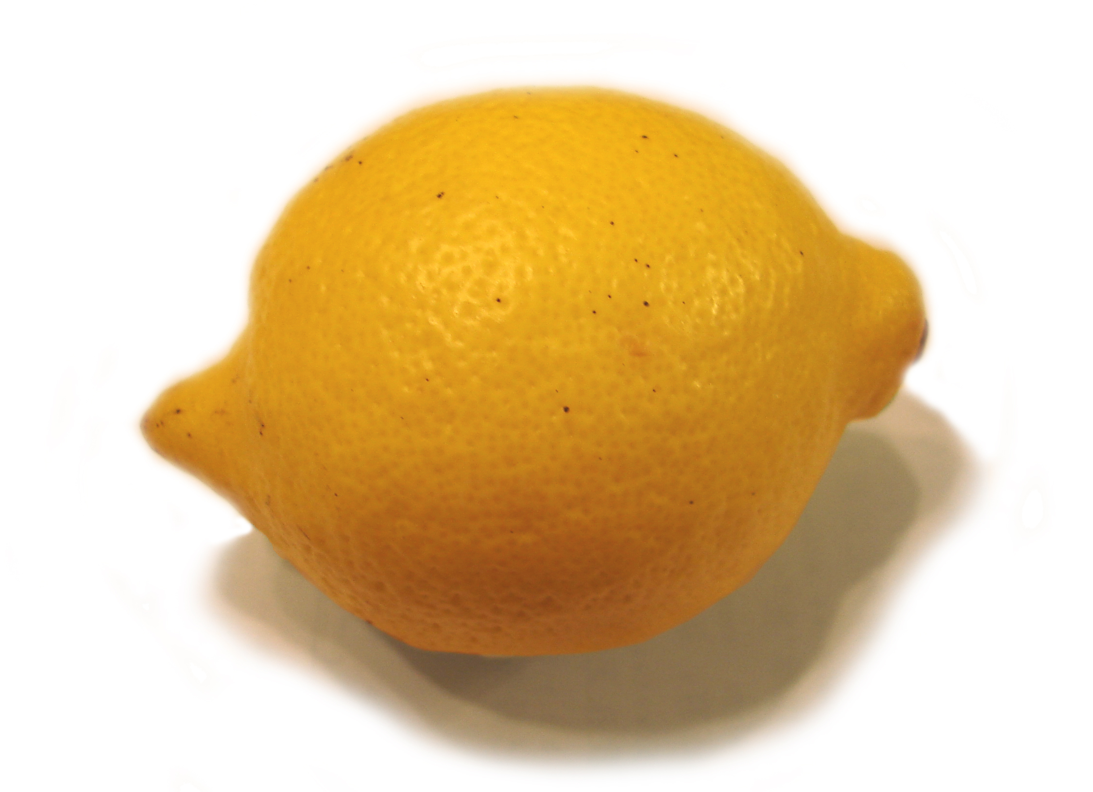 A lemon on a white background.